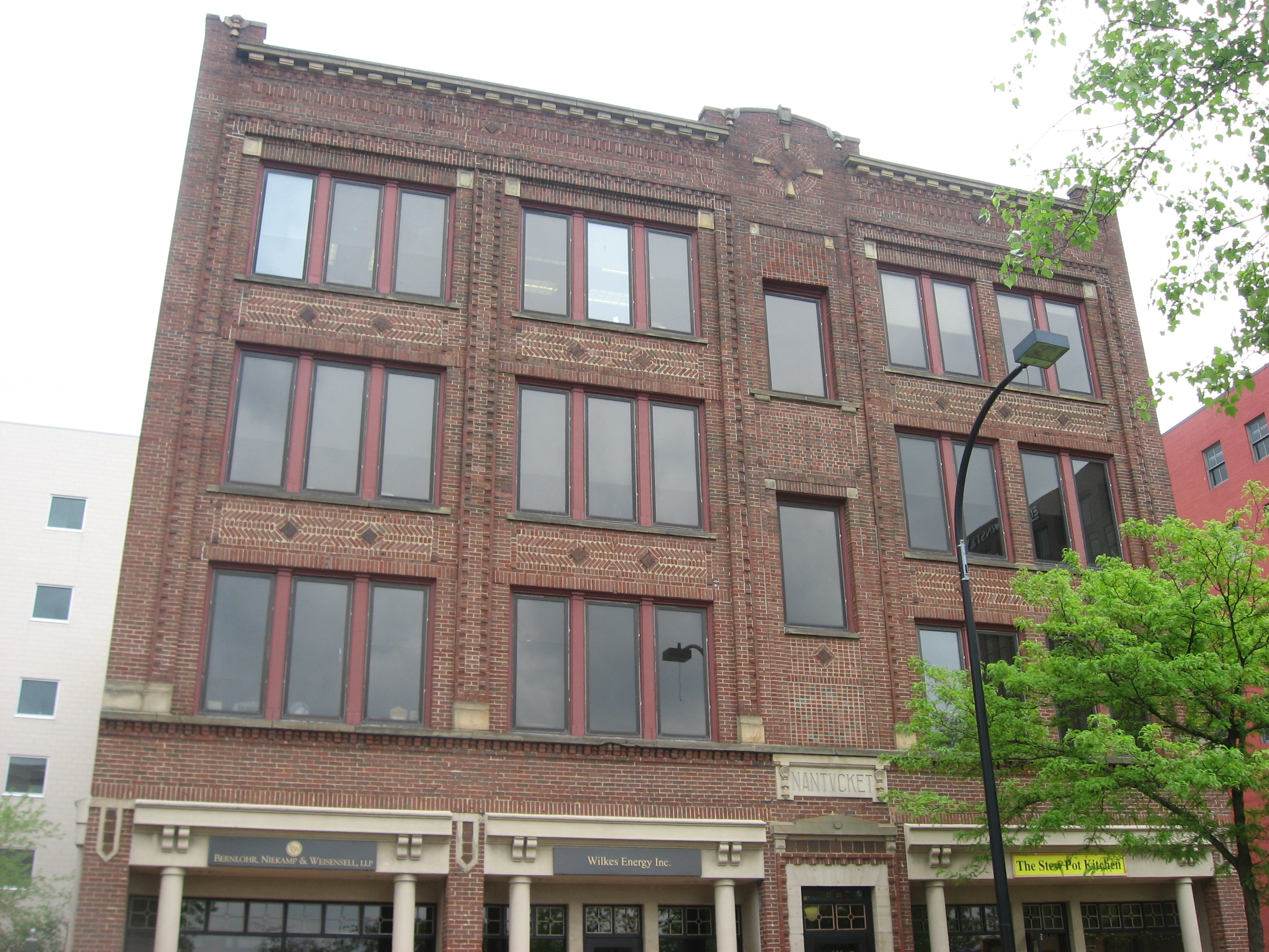 Front of the Nantucket Building, located at 17-23 S. Main Street in Akron, Ohio, United States. Built in 1910, it is part of the Main-Market Historic District, a historic district that is listed on the National Register of Historic Places.